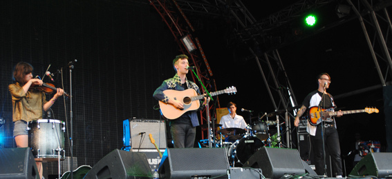 Fanfarlo at Green Man Festival 2010